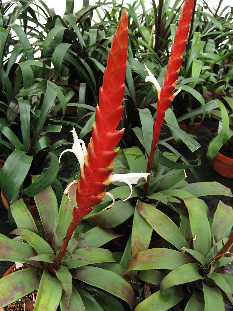 Vriesea malzinei var. disticha in cultivation at the Botanical Garden of Heidelberg, Germany.